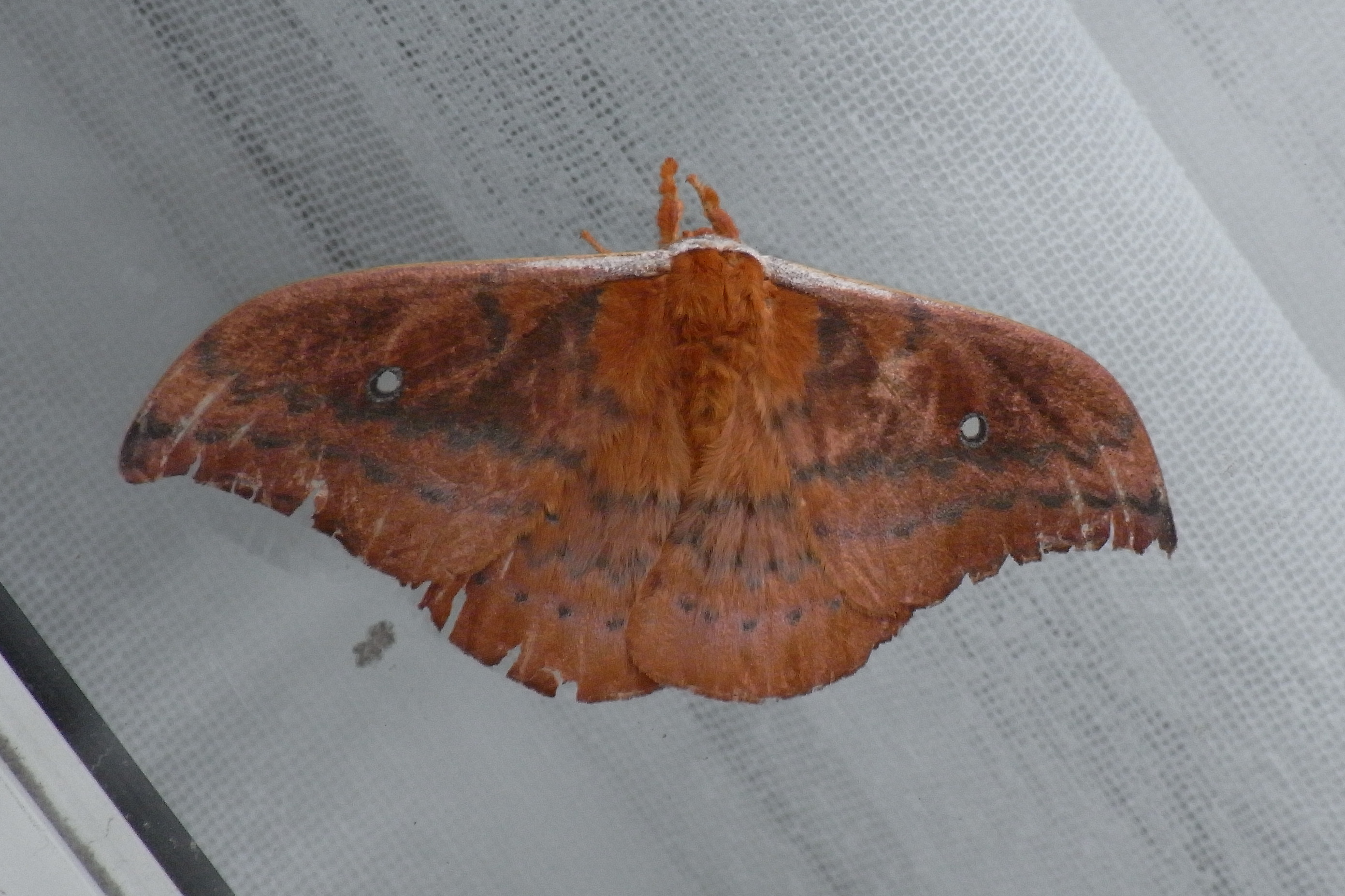 Emperor Moth (Syntherata janetta) on a window in Canungra, Queensland, Australia.